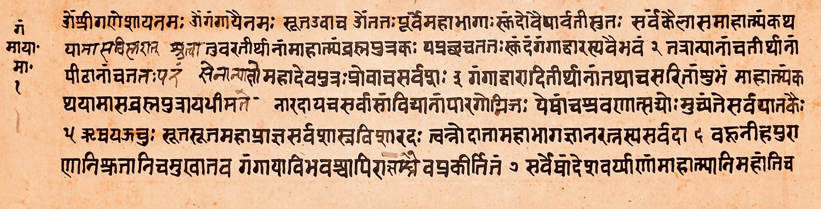 This is a page from the Skanda Purana manuscript. It is a medieval era tour guide of pilgrimage sites along the Ganges River. Language: Sanskrit Script: Devenagari This manuscript was acquired in the 19th-century, and was produced in or before the acquisition. The photo above is of a 2D artwork from the text that was itself authored more than 500 years ago. Therefore Wikimedia Commons PD-Art licensing guidelines apply. Any rights I have as a photographer is herewith donated to wikimedia commons under CC 4.0 license.